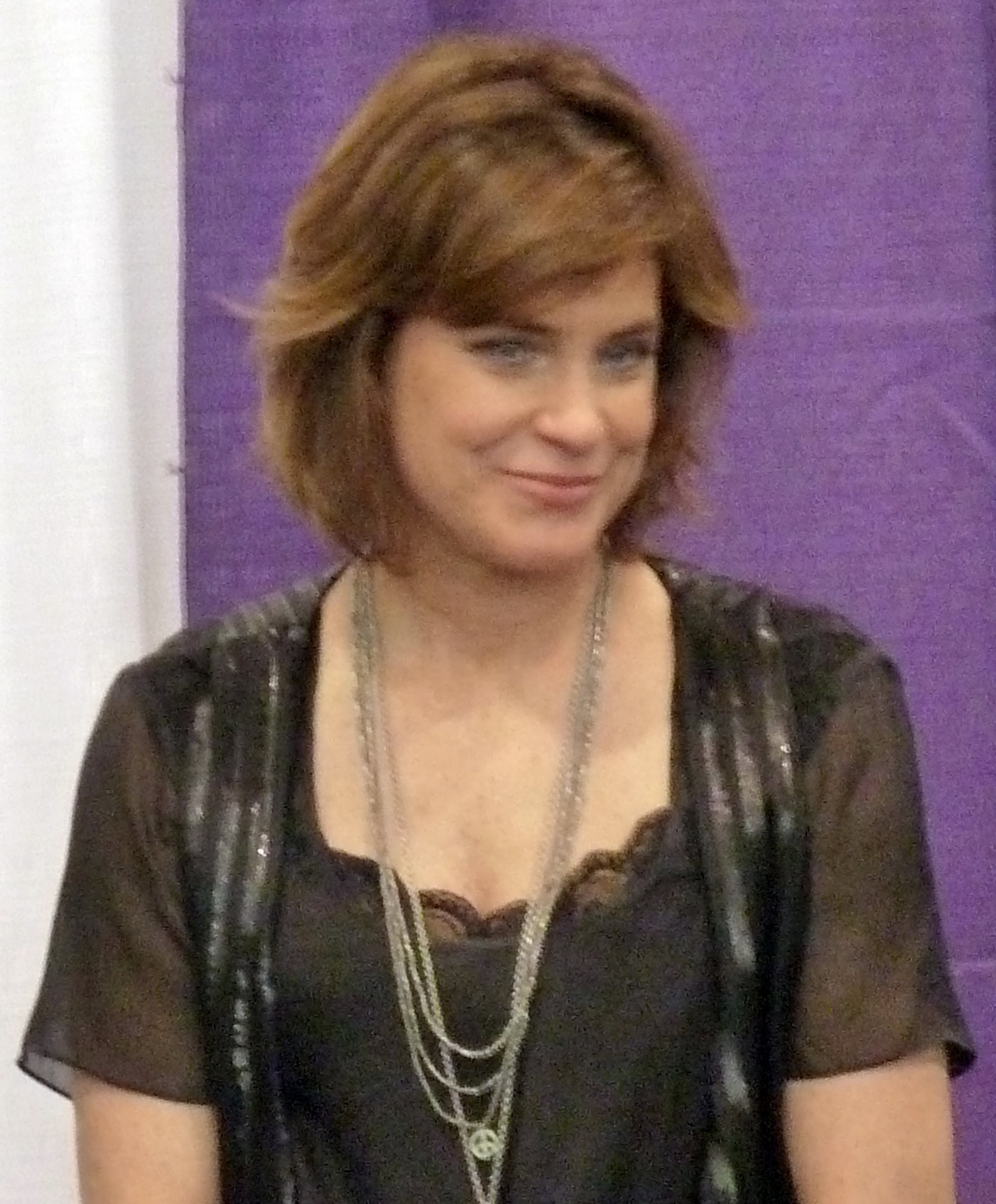 Catherine Mary Stewart from The Last Starfighter in 2012 Wizard World Toronto.